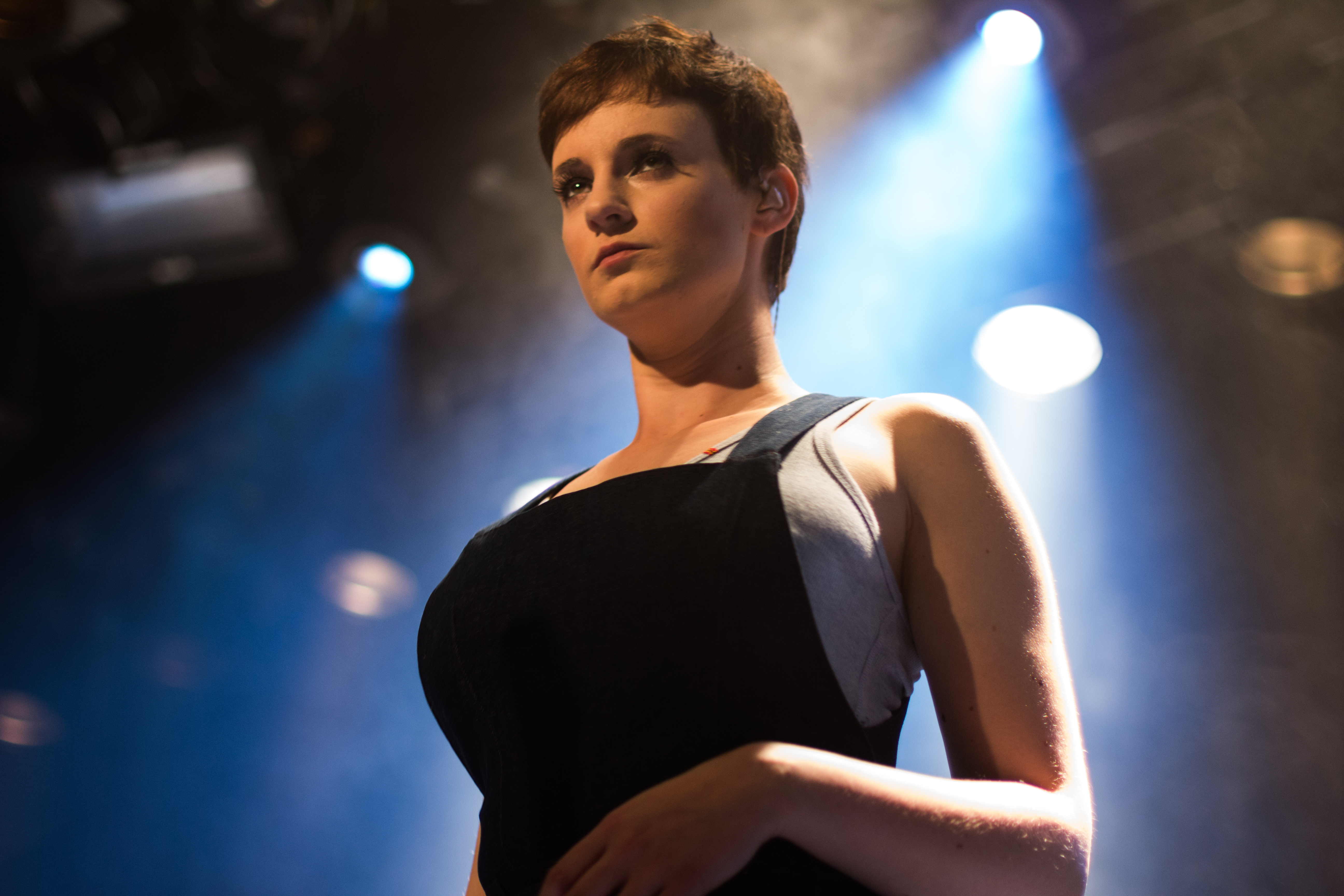 Hooverphonic 011